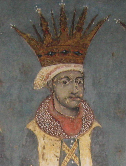 Iliaș Rareș